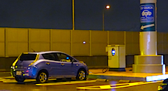 Electric vehicle charging station at Nakajima Parking Area